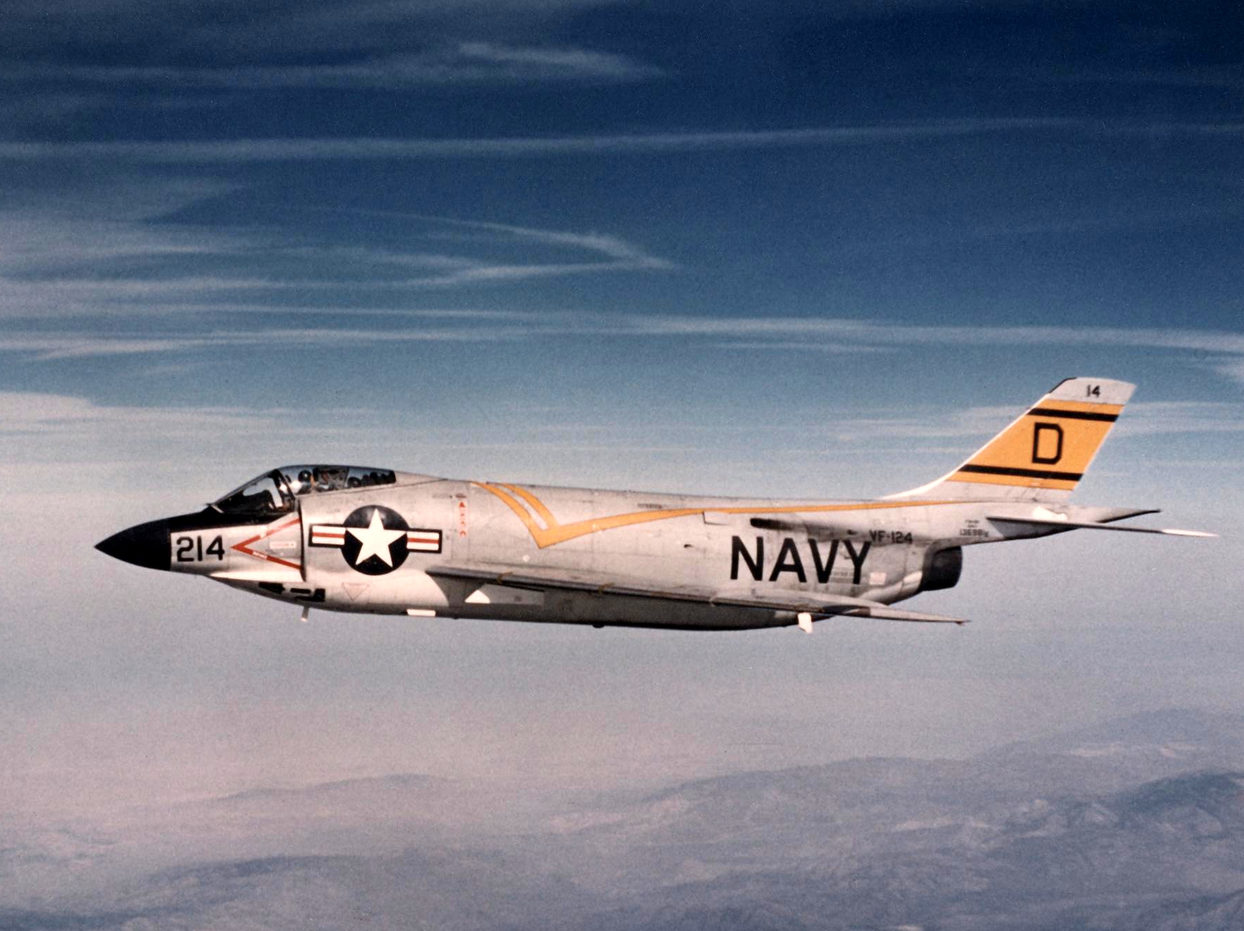 A U.S. Navy McDonnell F3H-2N Demon (BuNo 136981) of Fighter Squadron 124 (VF-124) "Moonshiners" in flight. VF-124 was assigned to Carrier Air Group 12 (CVG-12) aboard the aircraft carrier USS Lexington (CVA-16) for a deployment to the Western Pacific from 19 April to 17 October 1957.